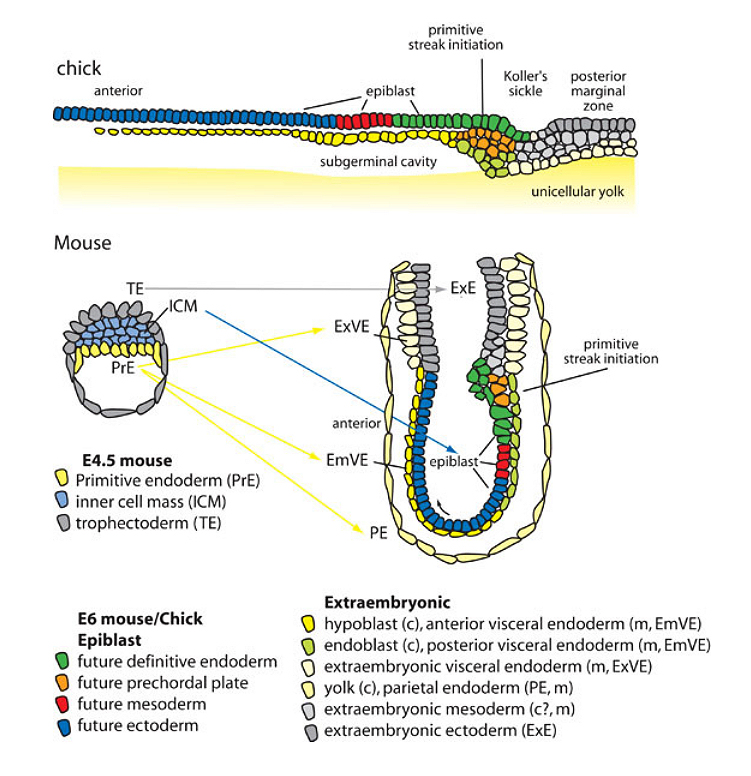 Extraembryonic endoderm lineages and the fate of epiblast cells are color-coded. The territories of prospective endoderm, mesoderm and neurectoderm are separated by sharp boundaries only for the sake of simplification. In the mouse, posterior VE is speculated to be the equivalent of the chick endoblast due to its analogous position. Likewise in the proximal epiblast, prechordal plate progenitor cells are predicted to reside in between definitive endoderm precursors and posterior VE in analogy to chick, even though the limited resolution of current fate maps cannot distinguish two separate populations in the mouse epiblast.